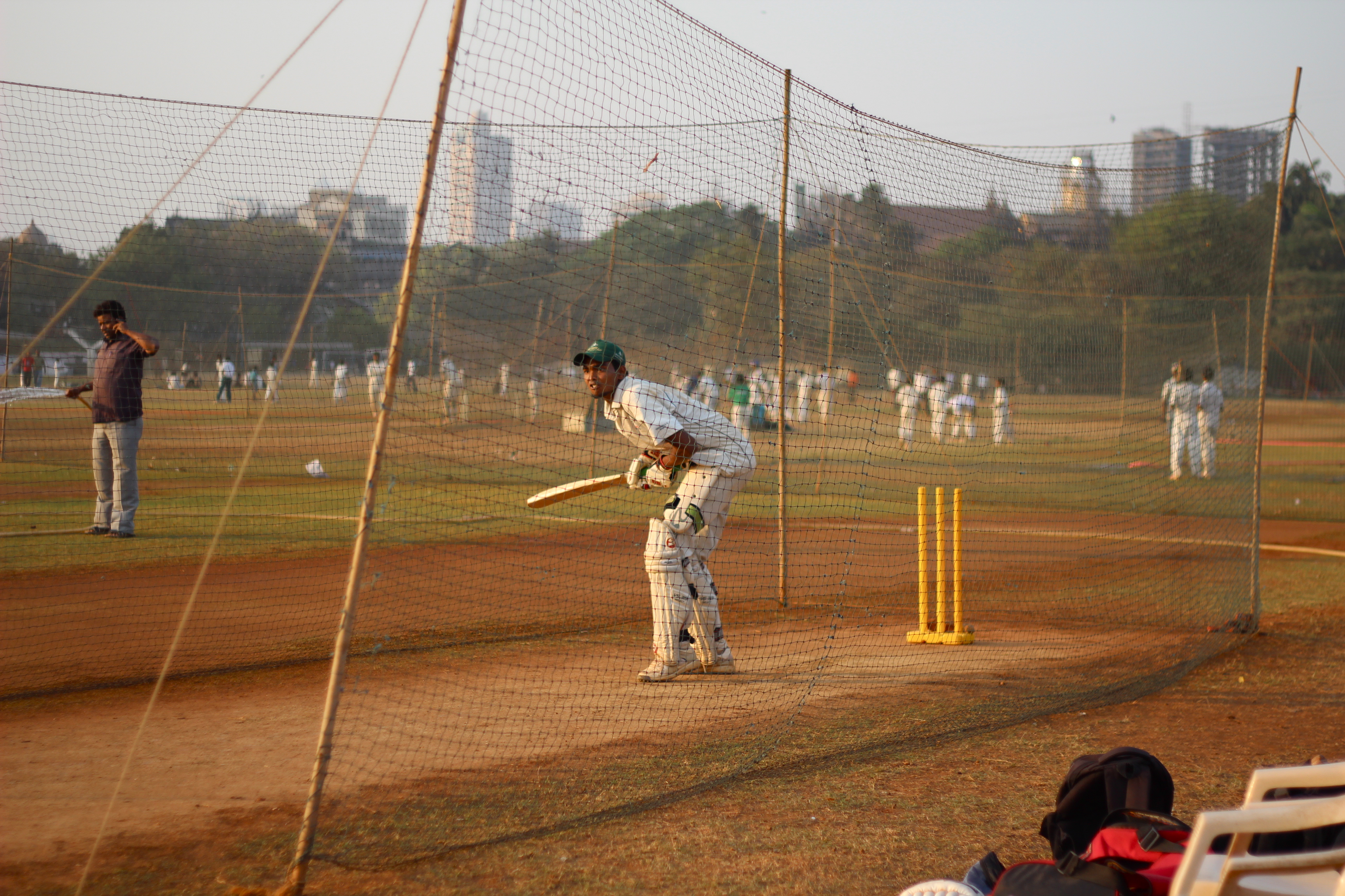 Boys from the Chanawala A. Sport Academy practice cricket at Azad Maidan. Mumbai, Maharashta